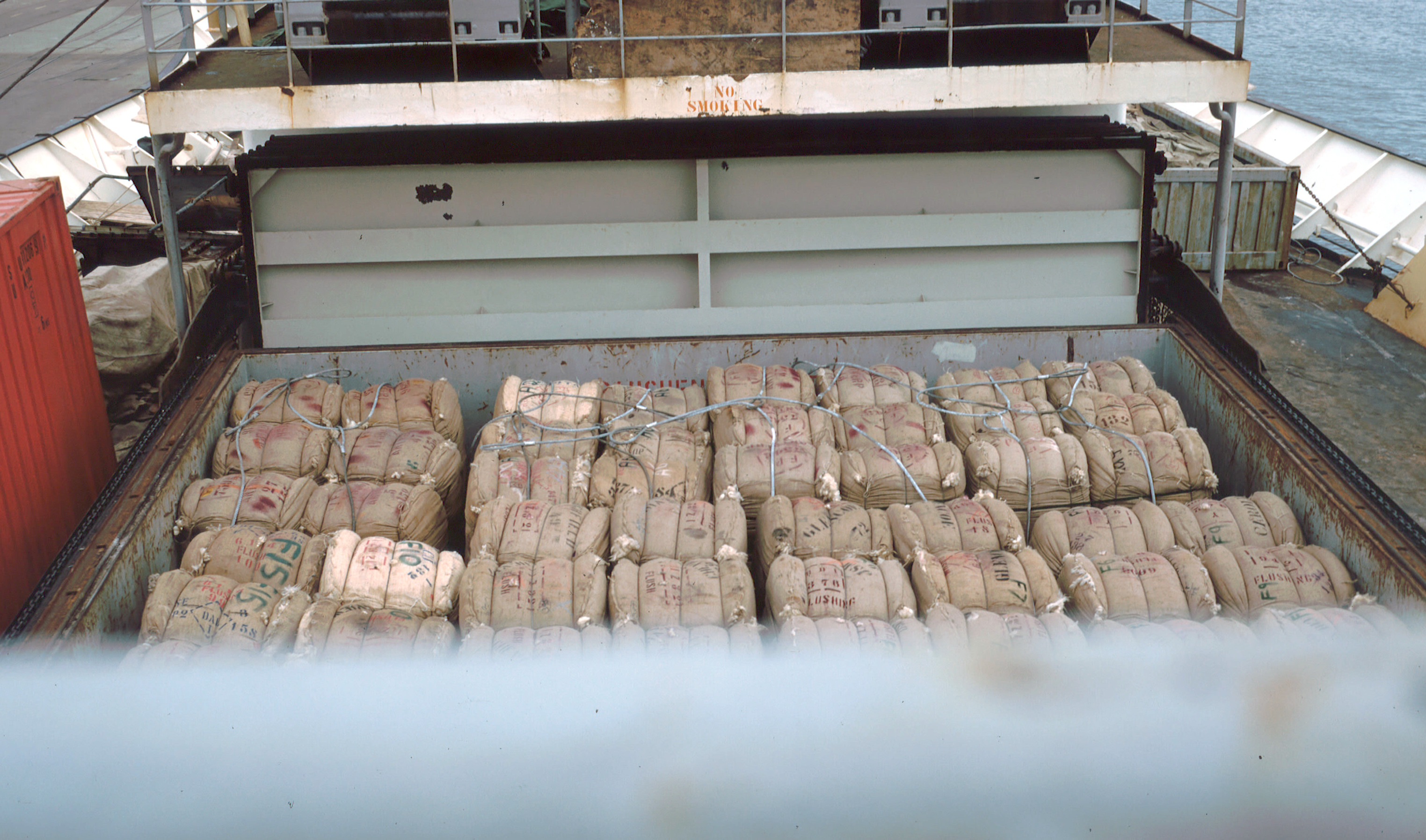 Cargo ship Bayernstein 1973 in the port of Napier NZ, hatch filled with wool bales